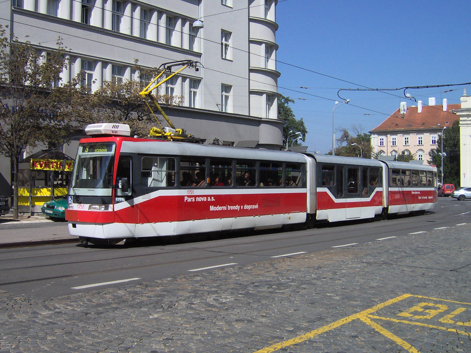 Tatra K3R-N tram in Brno, Czech Republic